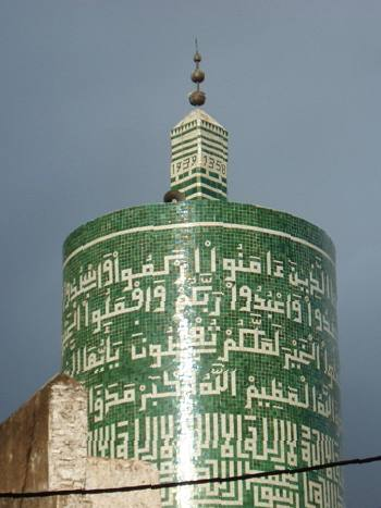 Round minaret in Moulay Idriss Zerhoun, Morocco